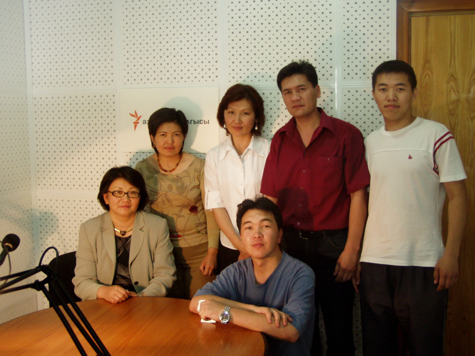 Dr. Roza Otunbayeva, then Foreign minister of Kyrgyzstan, at the Azattyk Media studio in Bishkek (sitting on the left), together with journalists Cholpon Orozobekova, Aziza Turdueva, Kubat Otorbaev, Kanat Subakojoev, and studio mamager Maksat Toroev (sitting). 07 June 2006. Photo by T.Chorotegin.